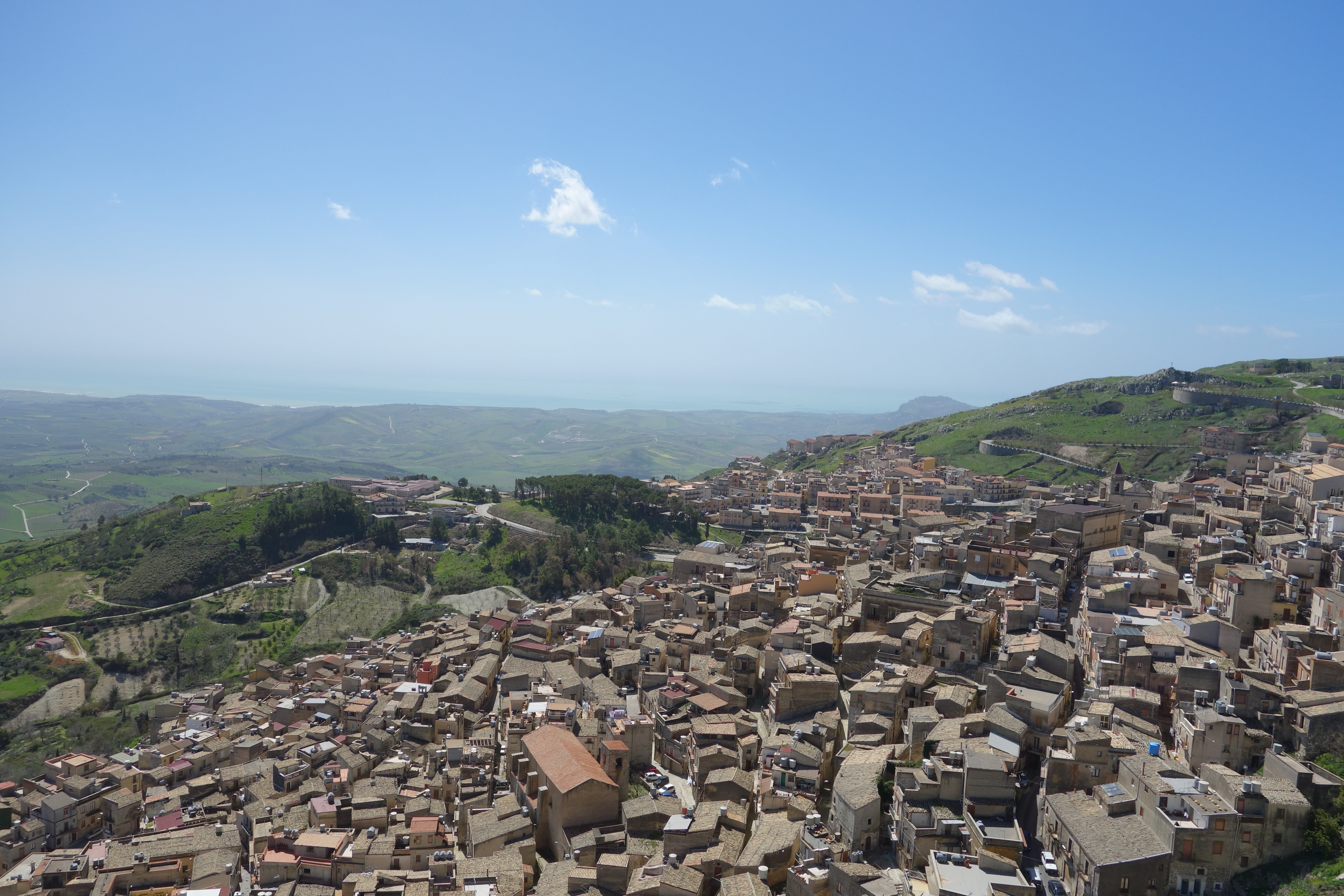 View of Caltabellotta 2